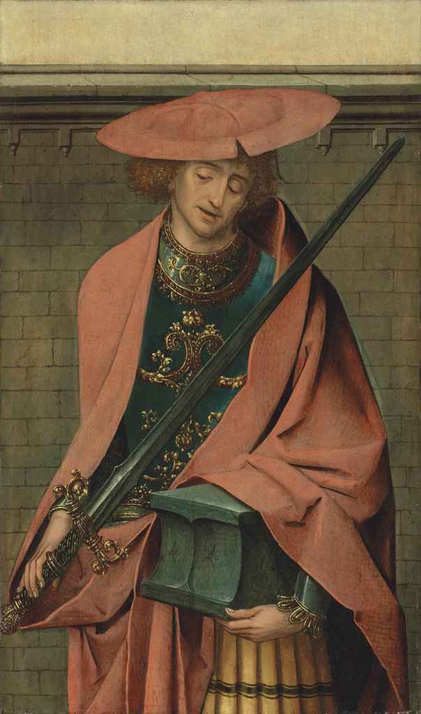 Saint Adrian